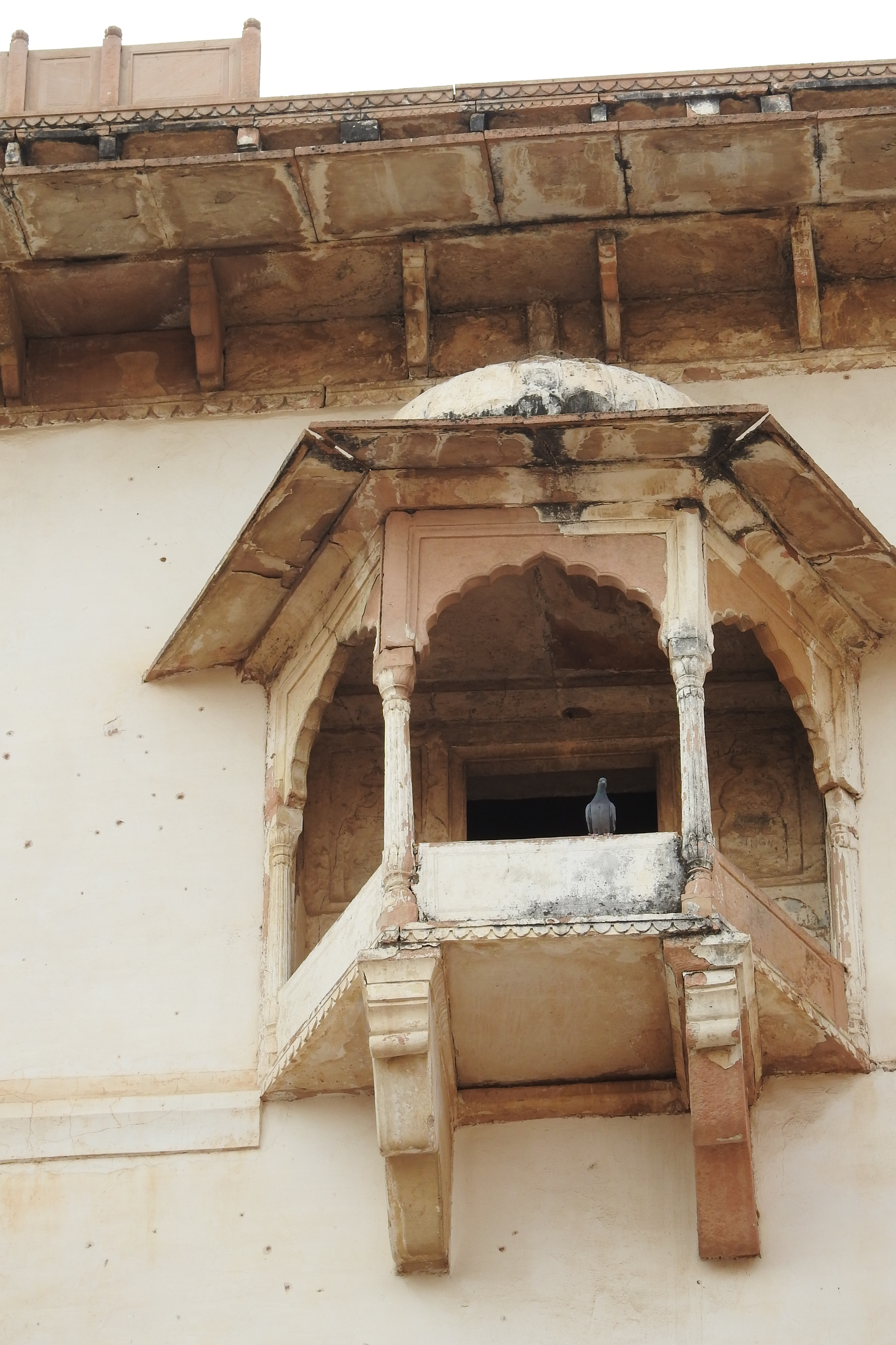 Kishori Mahal Palace, Lohagarh Fort, Bharatpur, Rajasthan, India.